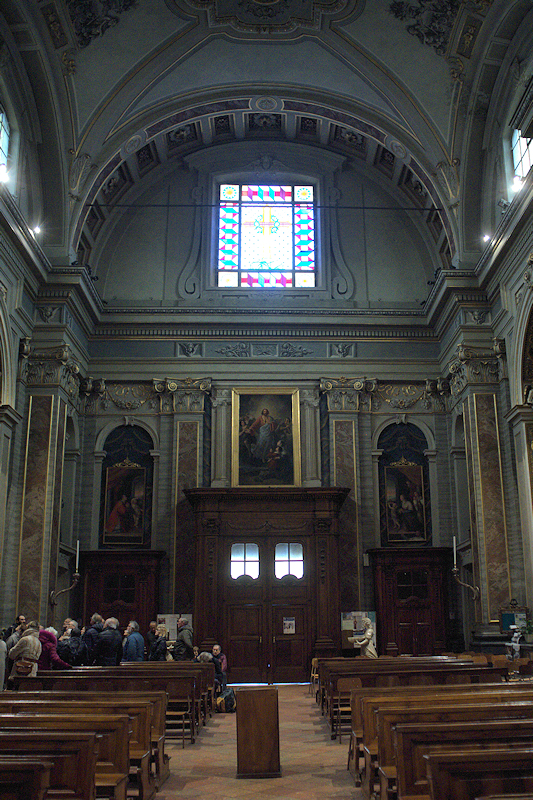 Church of San Benedetto in Crema (Italy): inside facade